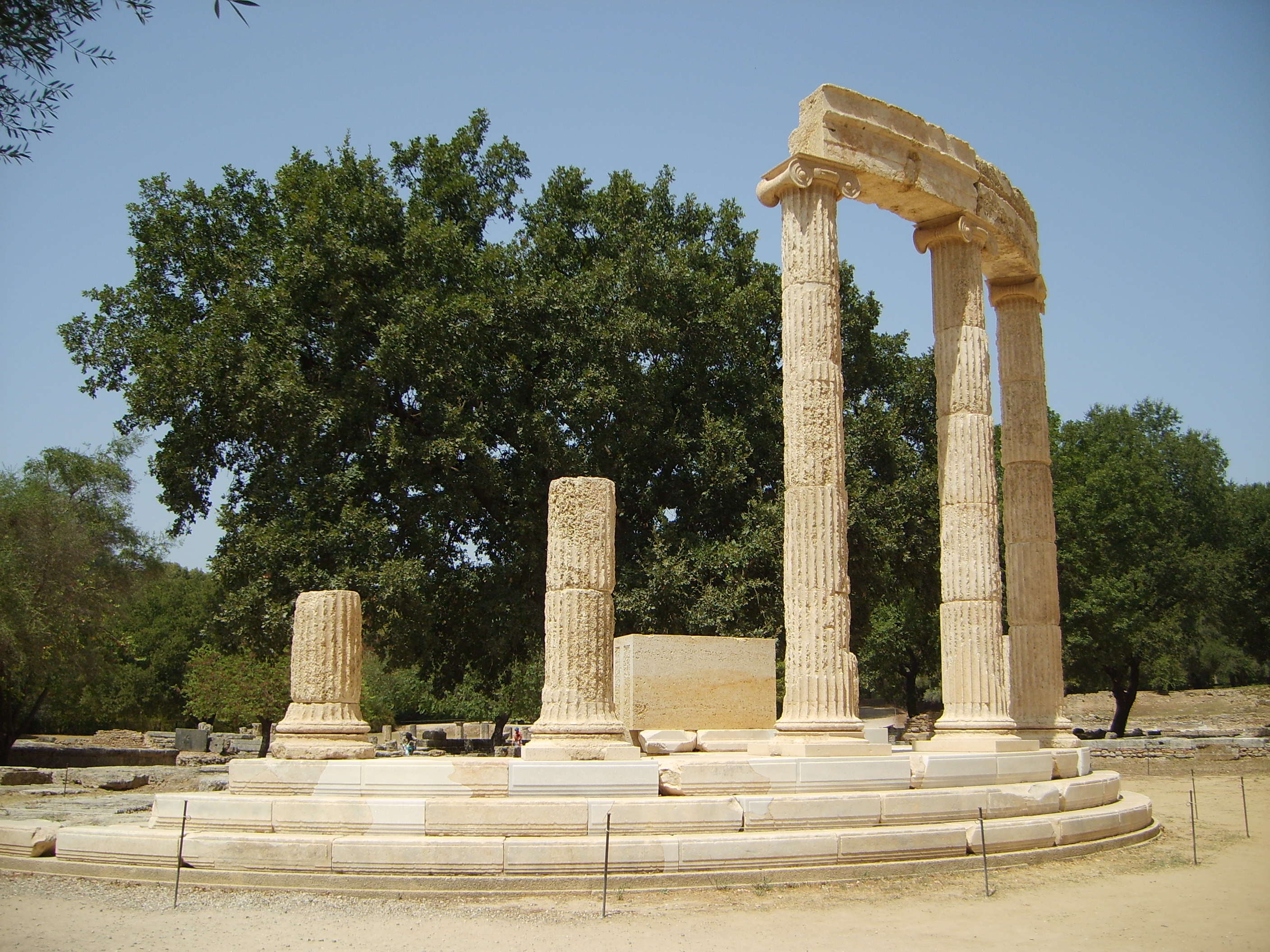 La Tholos d'Olympie (Correct identification for this building is the Philippeion, Olympia)